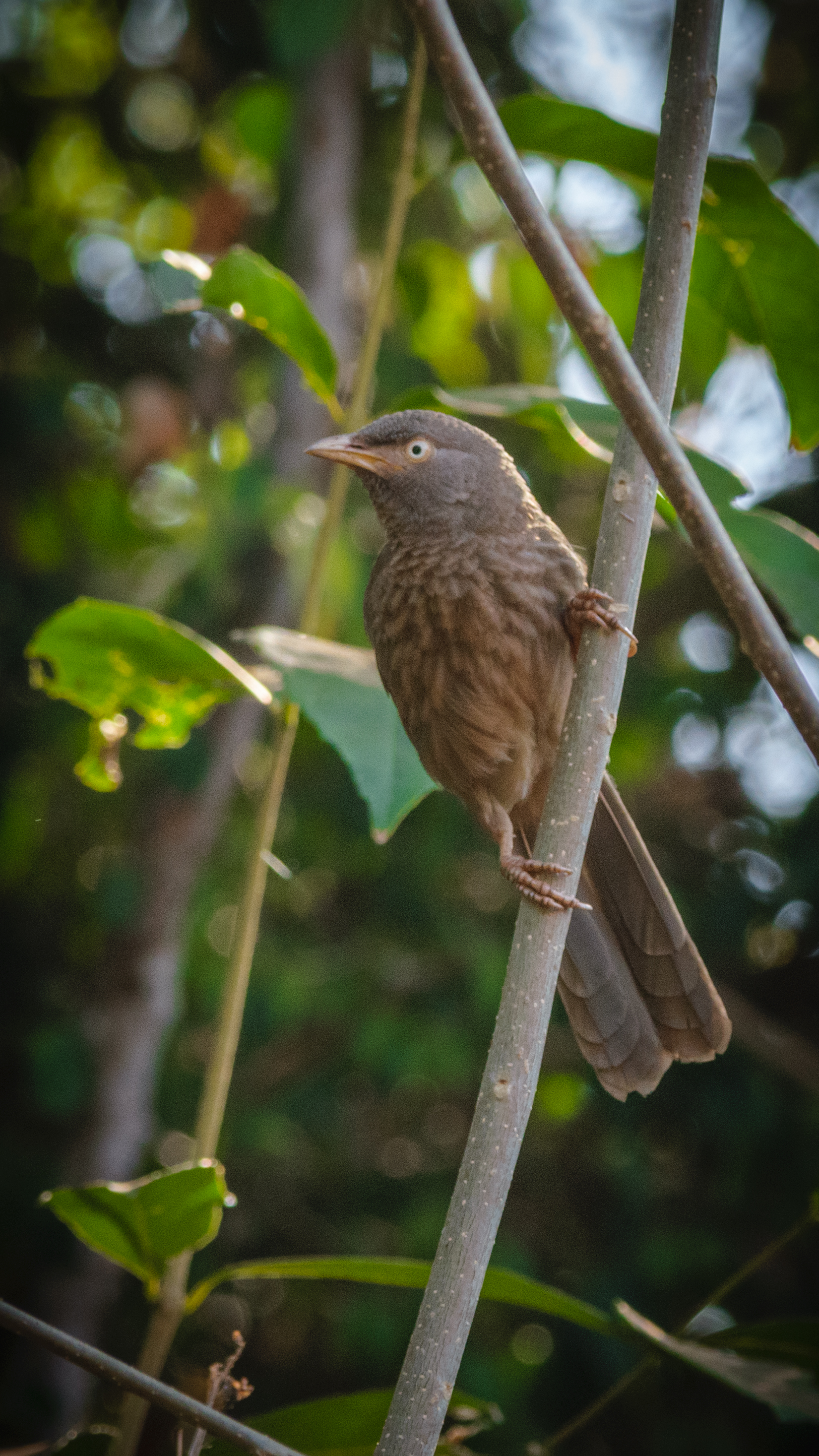 Jungle Babbler in Mangaluru.